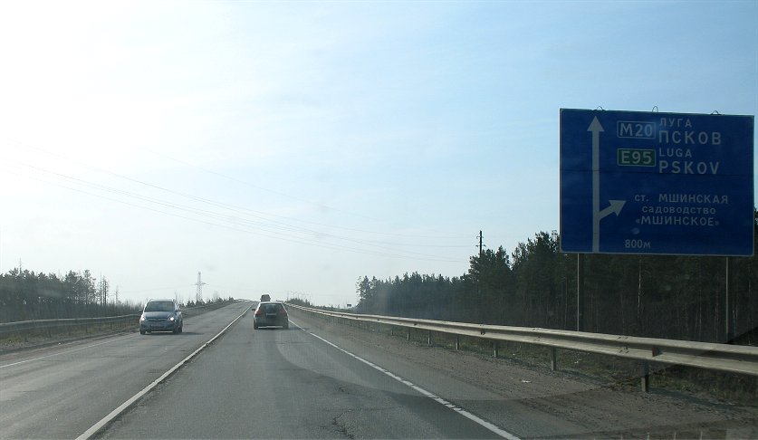 E95 i.e. M20 highway sign in Leningrad oblast, Russia, during ride towards Luga and Pskov.